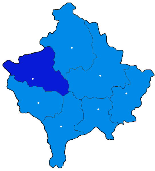 Map of Kosovo